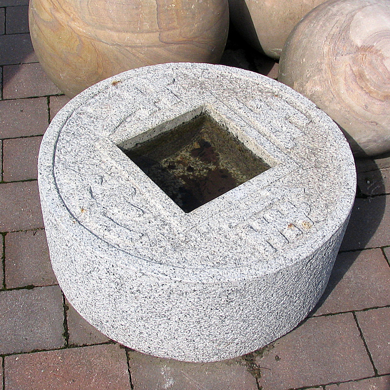 Replica of Tsukubai from Ryōan-ji (Garten von Ehren Hamburg).